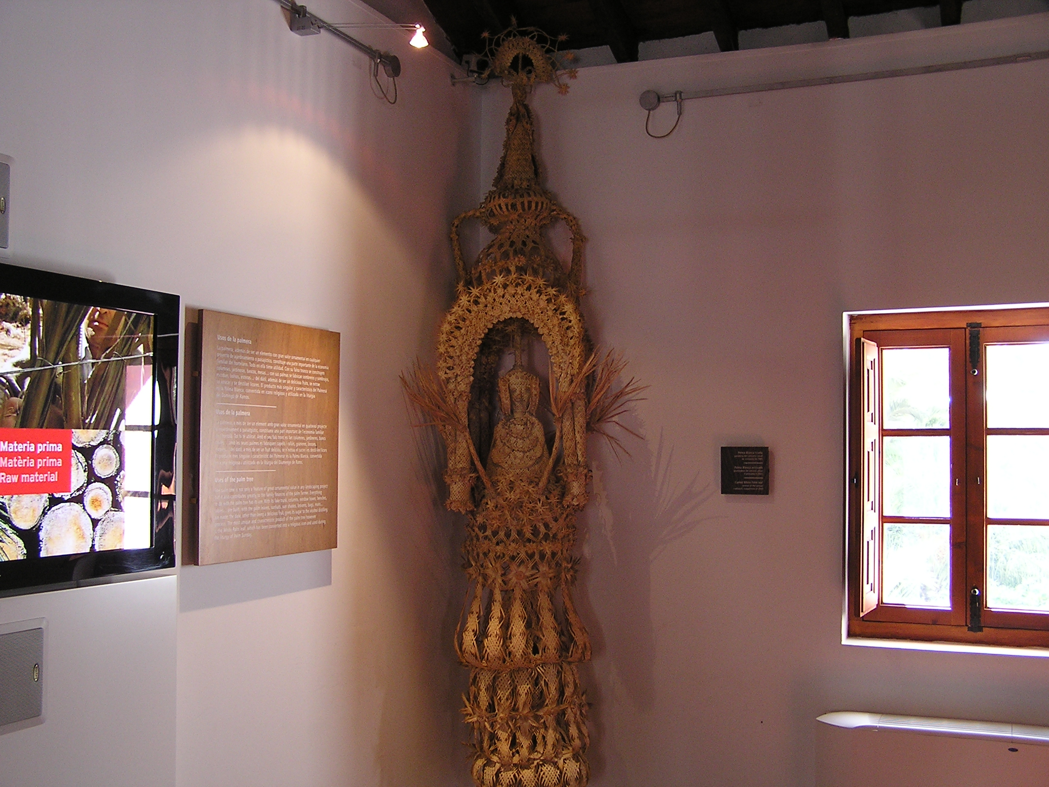 Inside the Museu del Palmerar